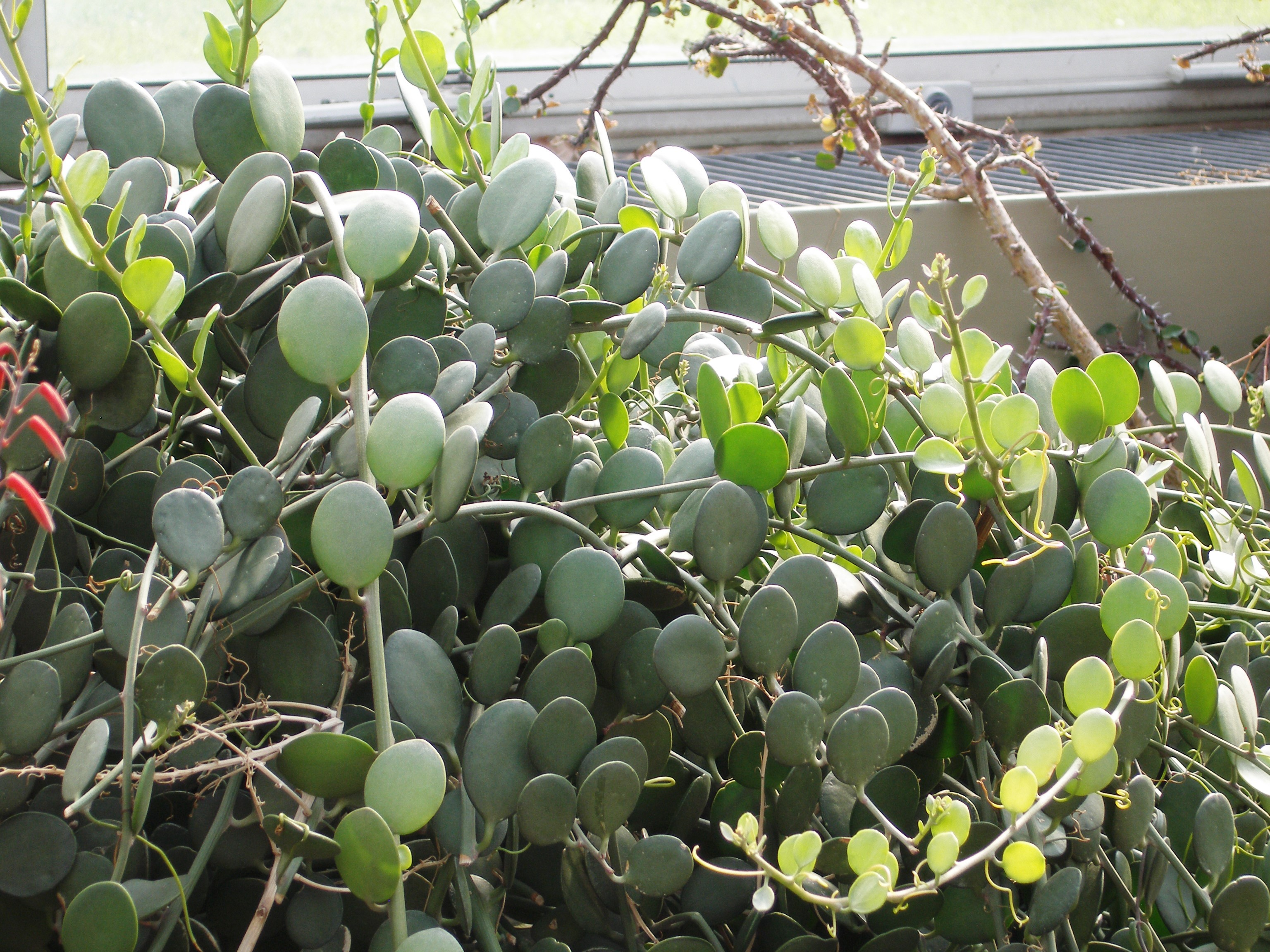 Specimen in cultivation at the Royal Botanic Gardens, Kew, United Kingdom.